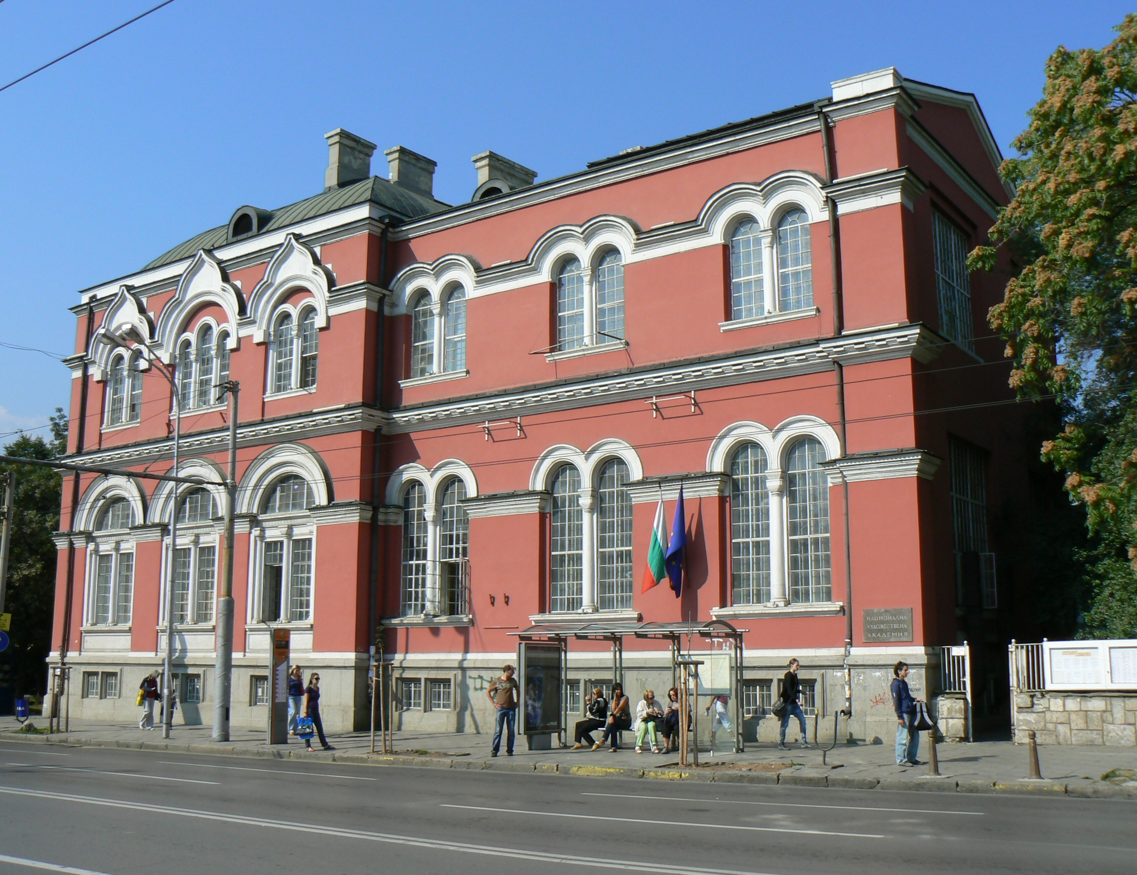 Sofia, National Art Academy